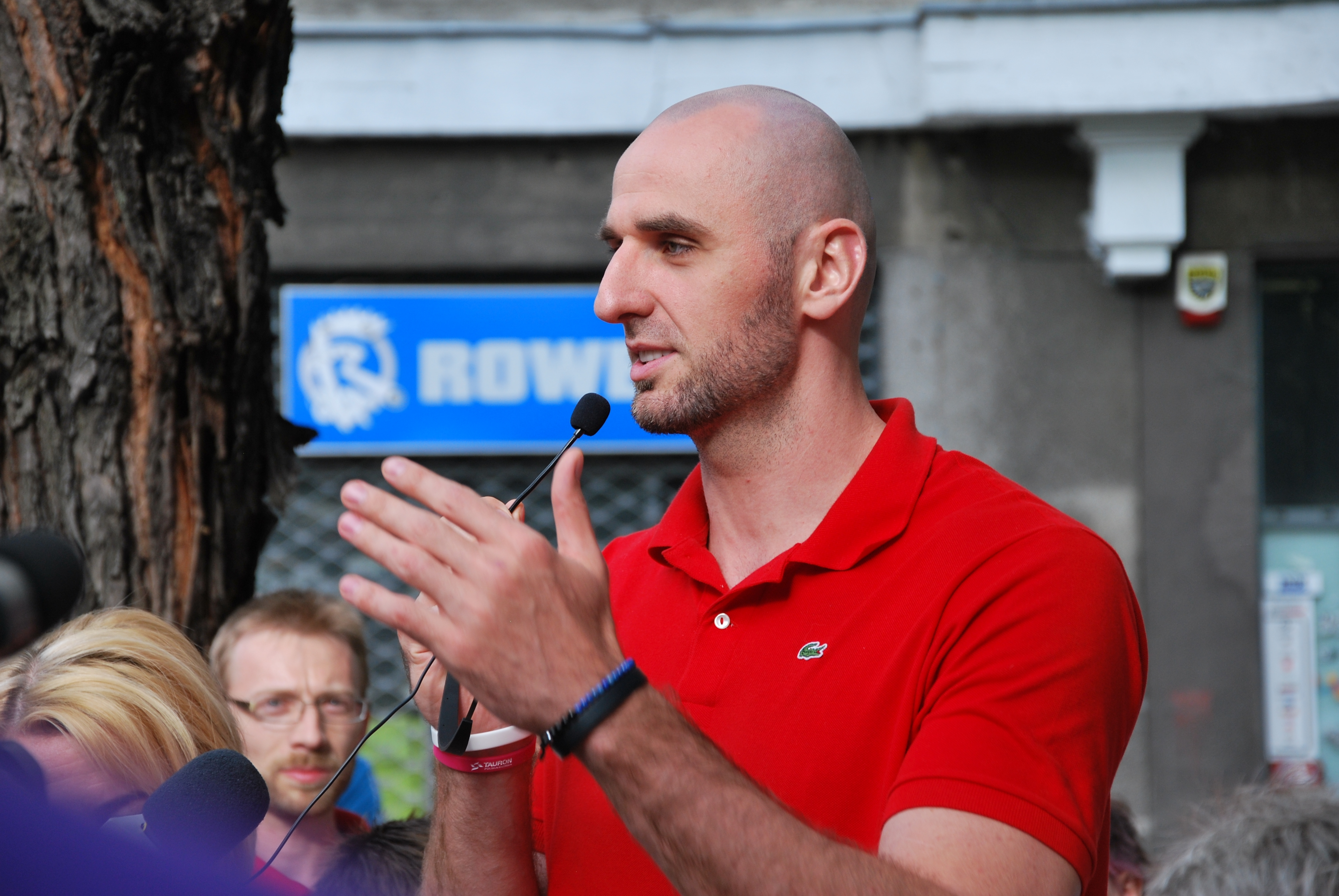 Marcin Gortat, Łódź July 2013